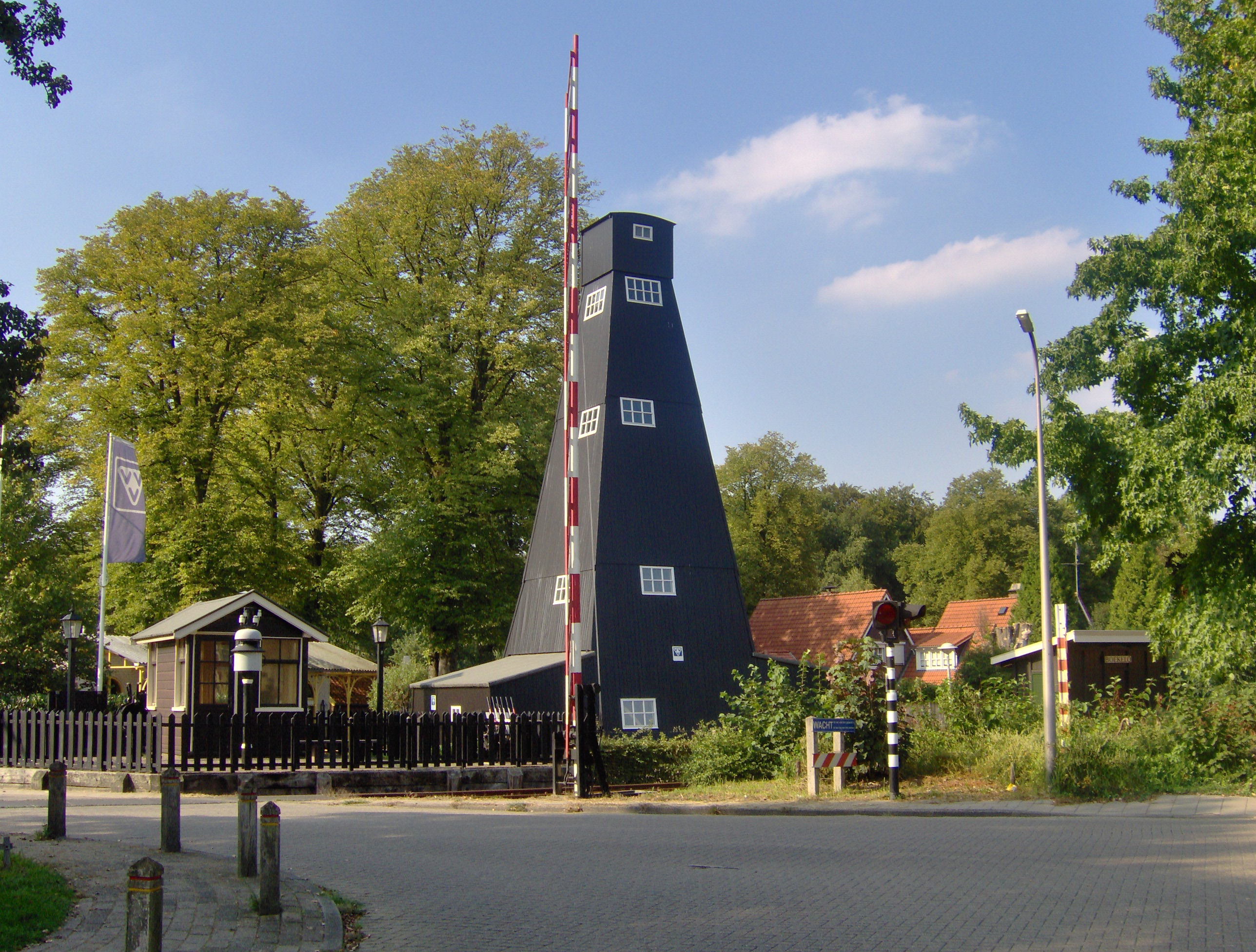 The Dutch railway station of Boekelo Location: Boekelo, a village in the municipality of Enschede, Netherlands